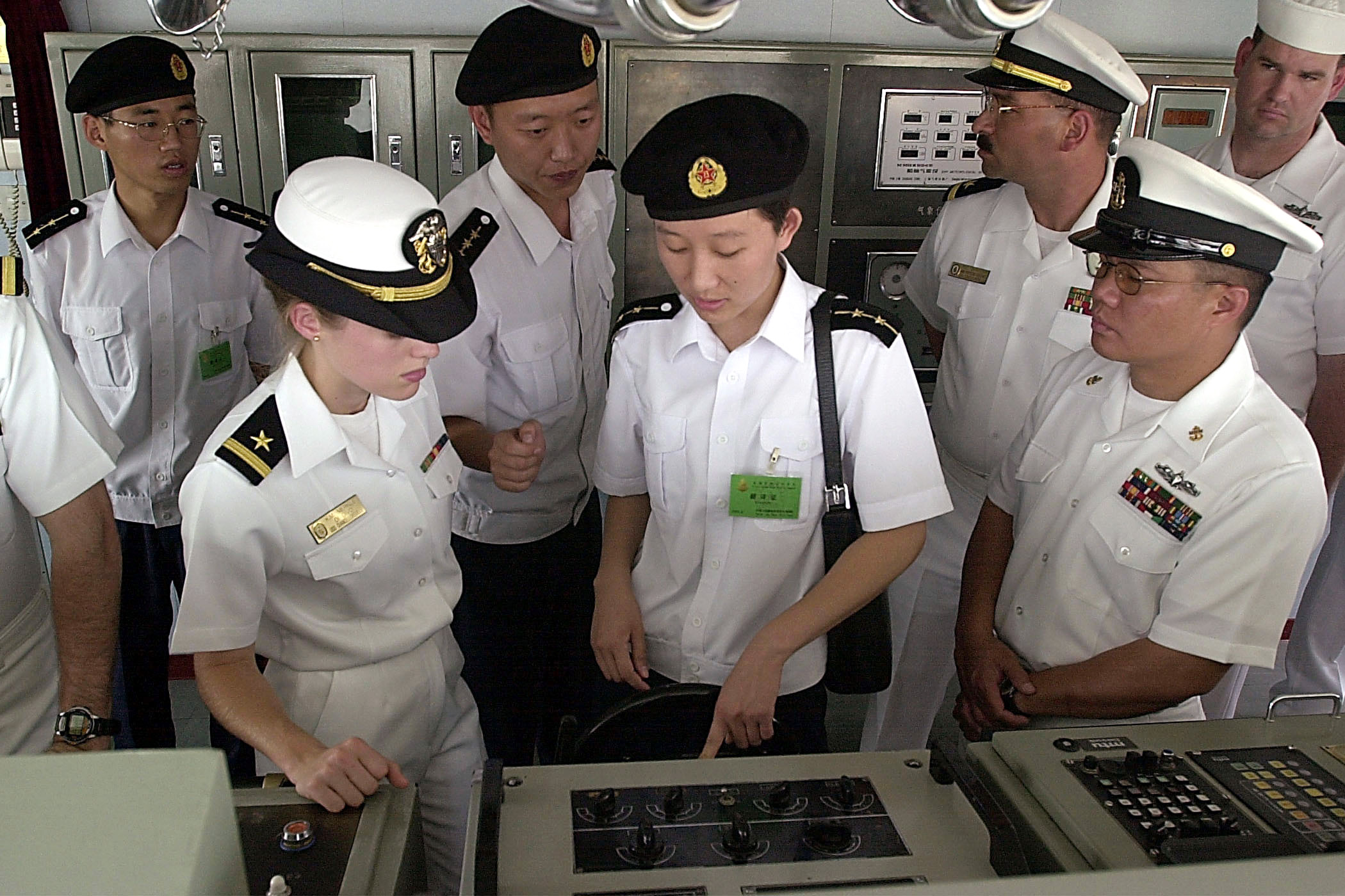 Lt. j.g. Weihua Hu (center), of the People's Liberation Army (Navy), shows Ensign Kathleen Merkle (left), U.S. Navy, the helm of the Chinese warship Harbin (DDG 112) during a tour of the ship in Qingdao, China, on Aug. 3, 2000. Merkle and other crew members of the USS Chancellorsville (CG 62) are exchanging visits with the crew of the Harbin while in port.